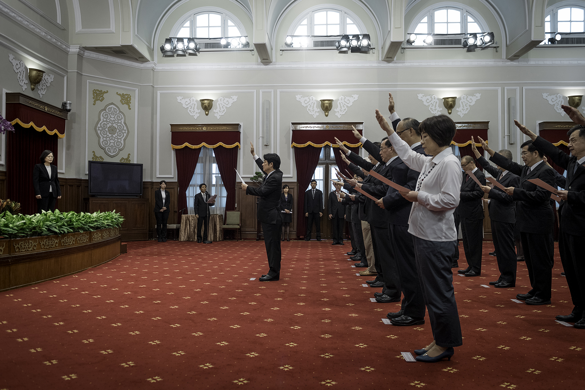 Premier Lai takes office, vows to advance reforms.